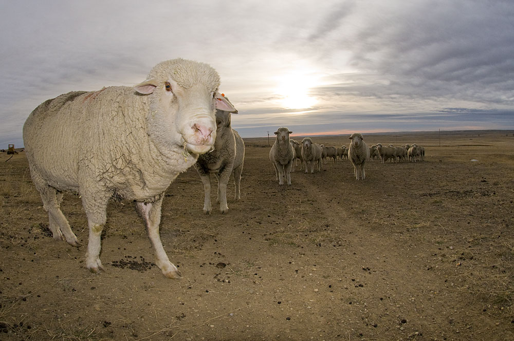 Herd of Targhee sheep from a ranch in eastern Wyoming